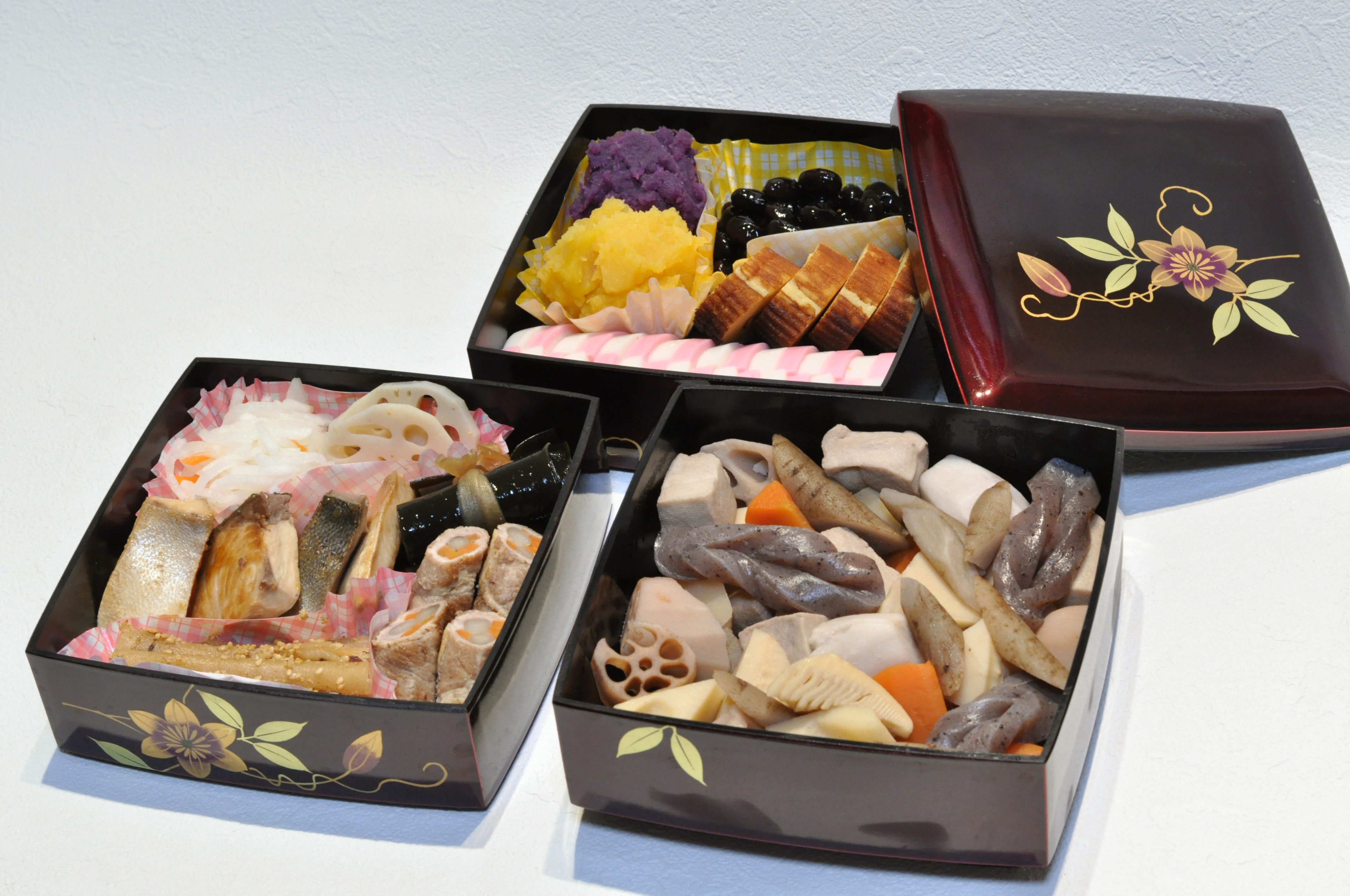 Homemade Osechi ryōri